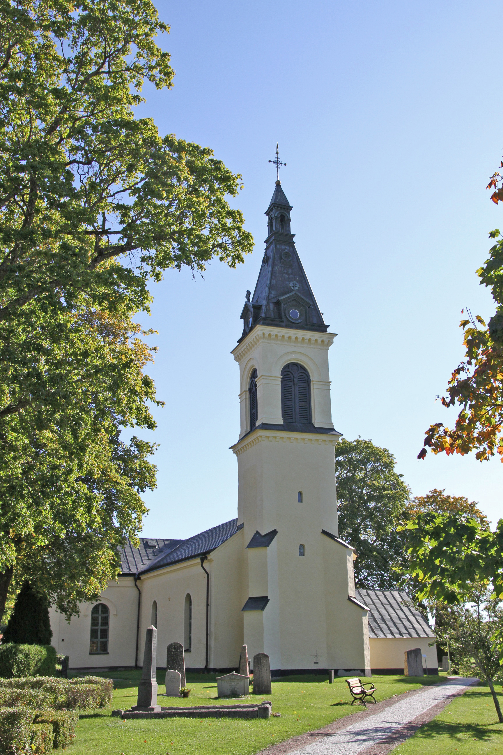 Vänge church, Vänge parish, Uppland